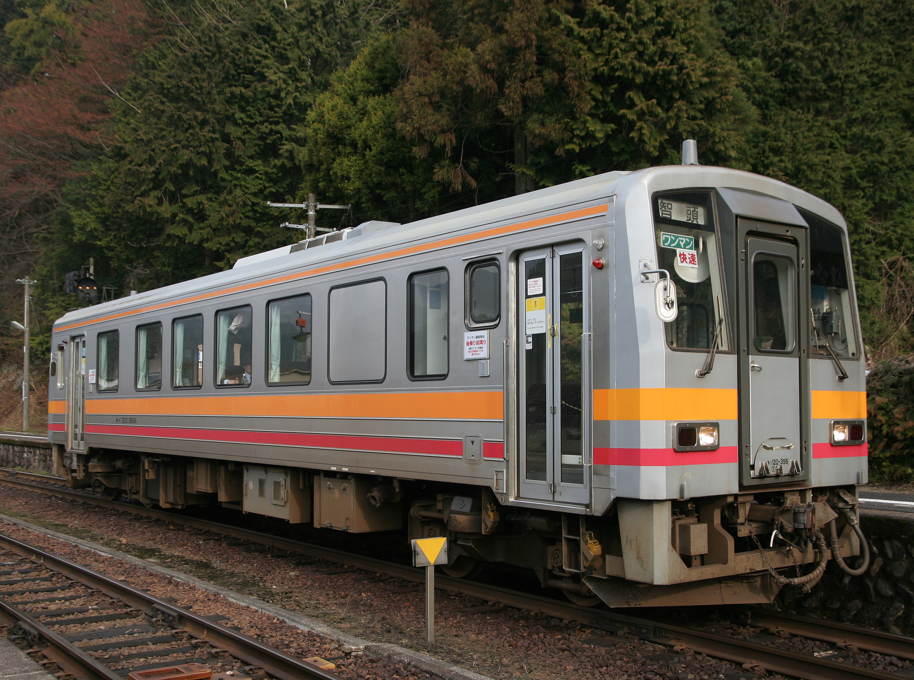 JR West KiHa 120-300 diesel car KiHa 120-356 at Nagi Station on the Inbi Line